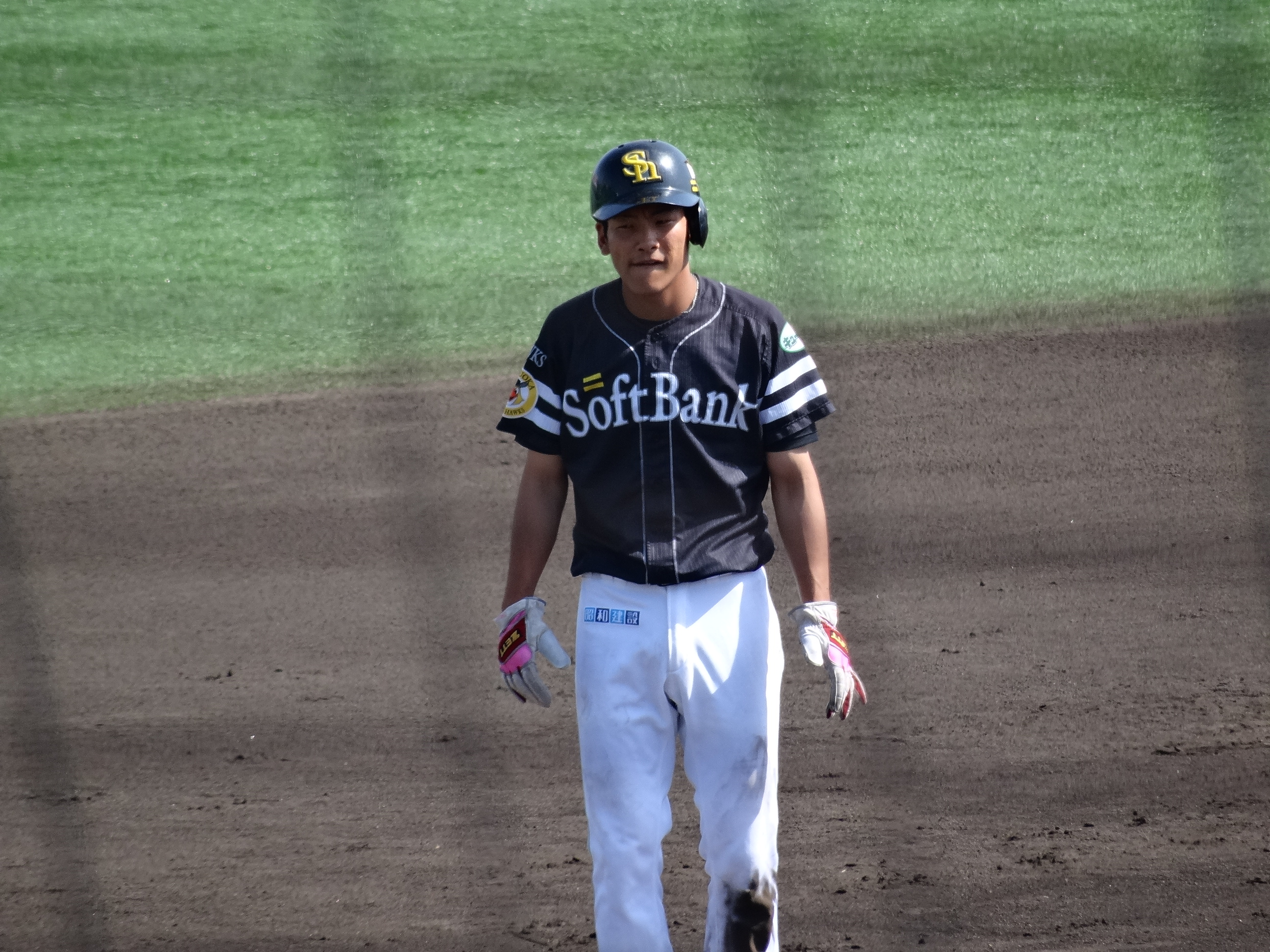 Yusuke Otaki, outfielder of the Fukuoka SoftBank Hawks, at Kobe Sports Park Sub Baseball Ground.